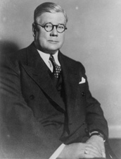 Storke, Thomas